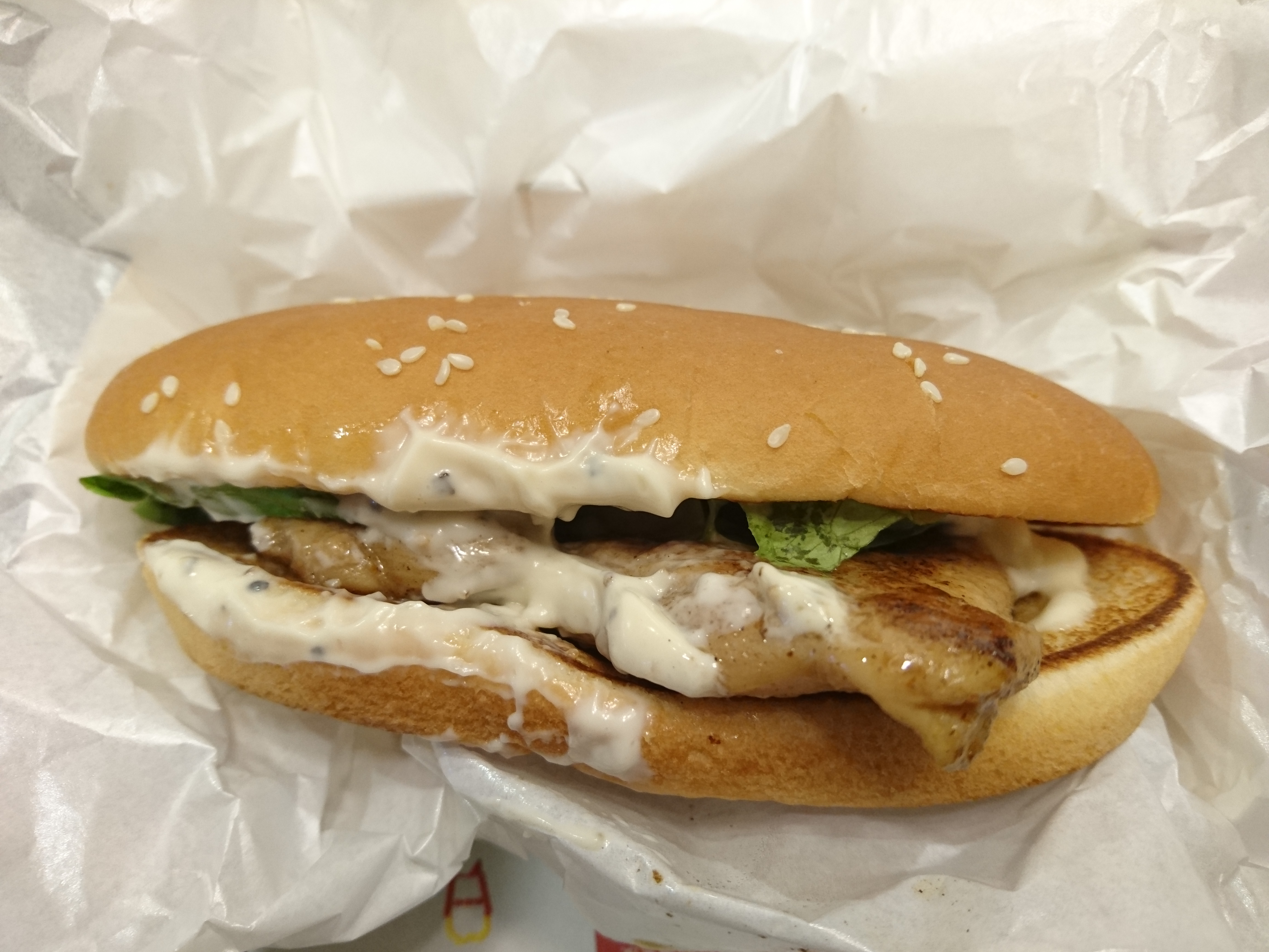 McDonald's Grilled Chicken Burger